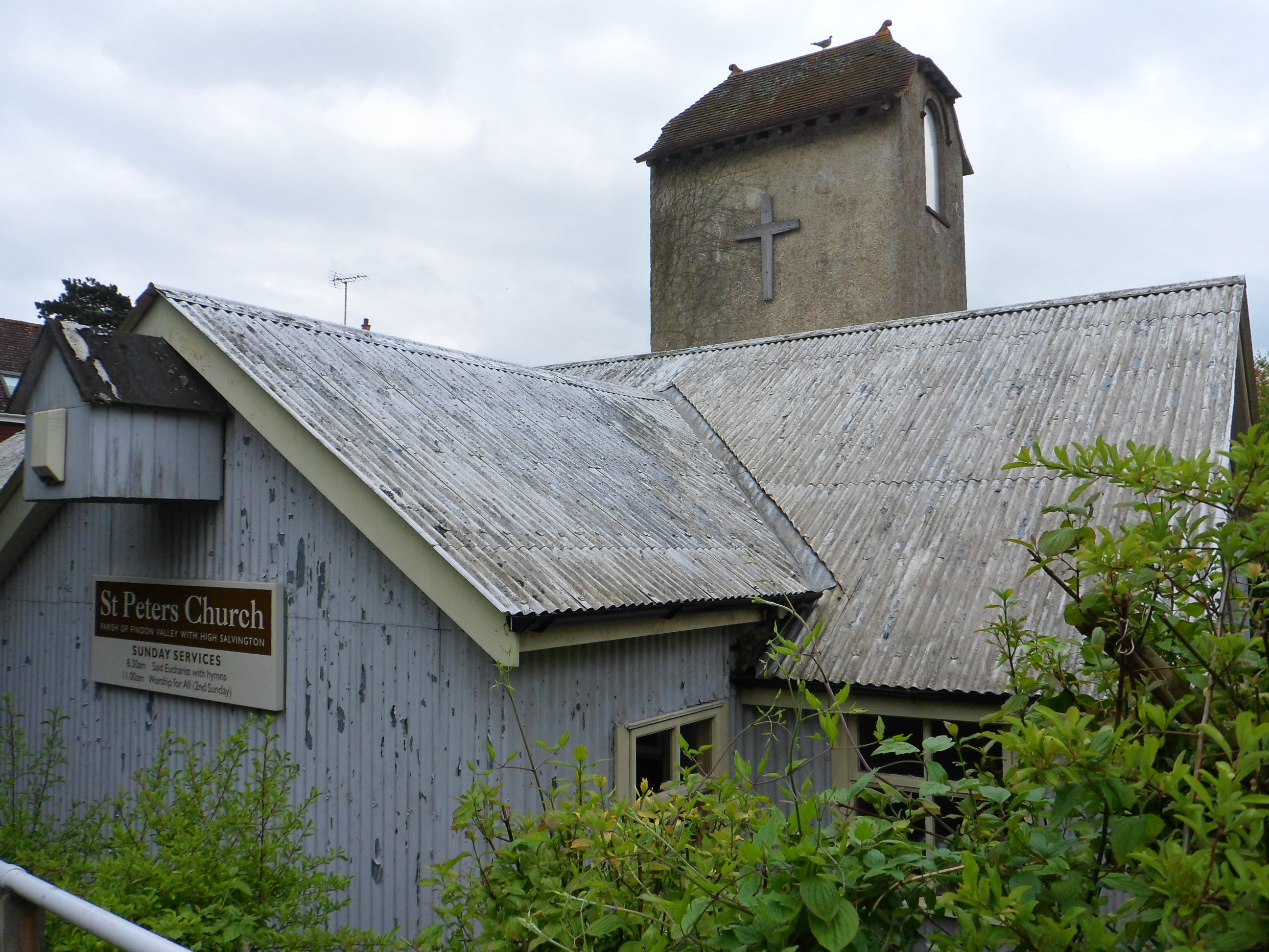 St Peter's parish church, Furze Road, High Salvington, Worthing, West Sussex, England. Built in 1928, the only "tin tabernacle" in Worthing.